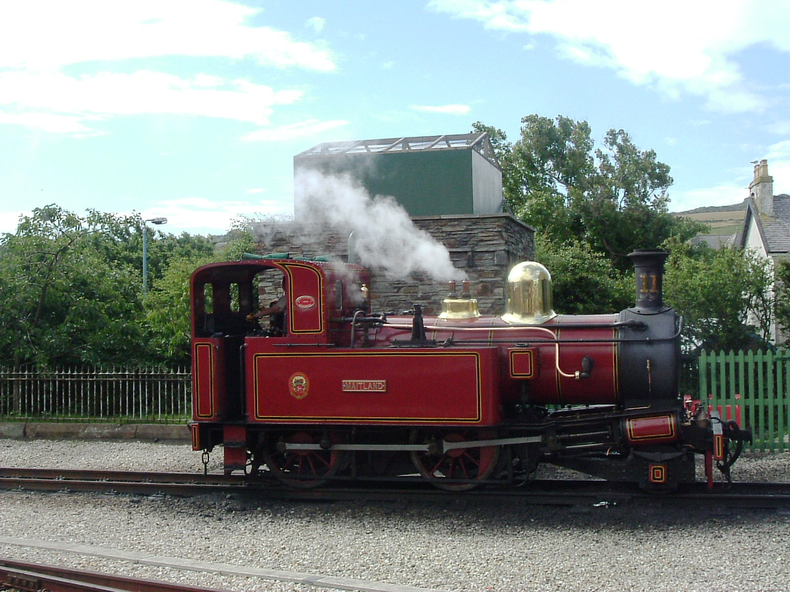 A steam locomotive from the Isle of Man. Photo taken by me.